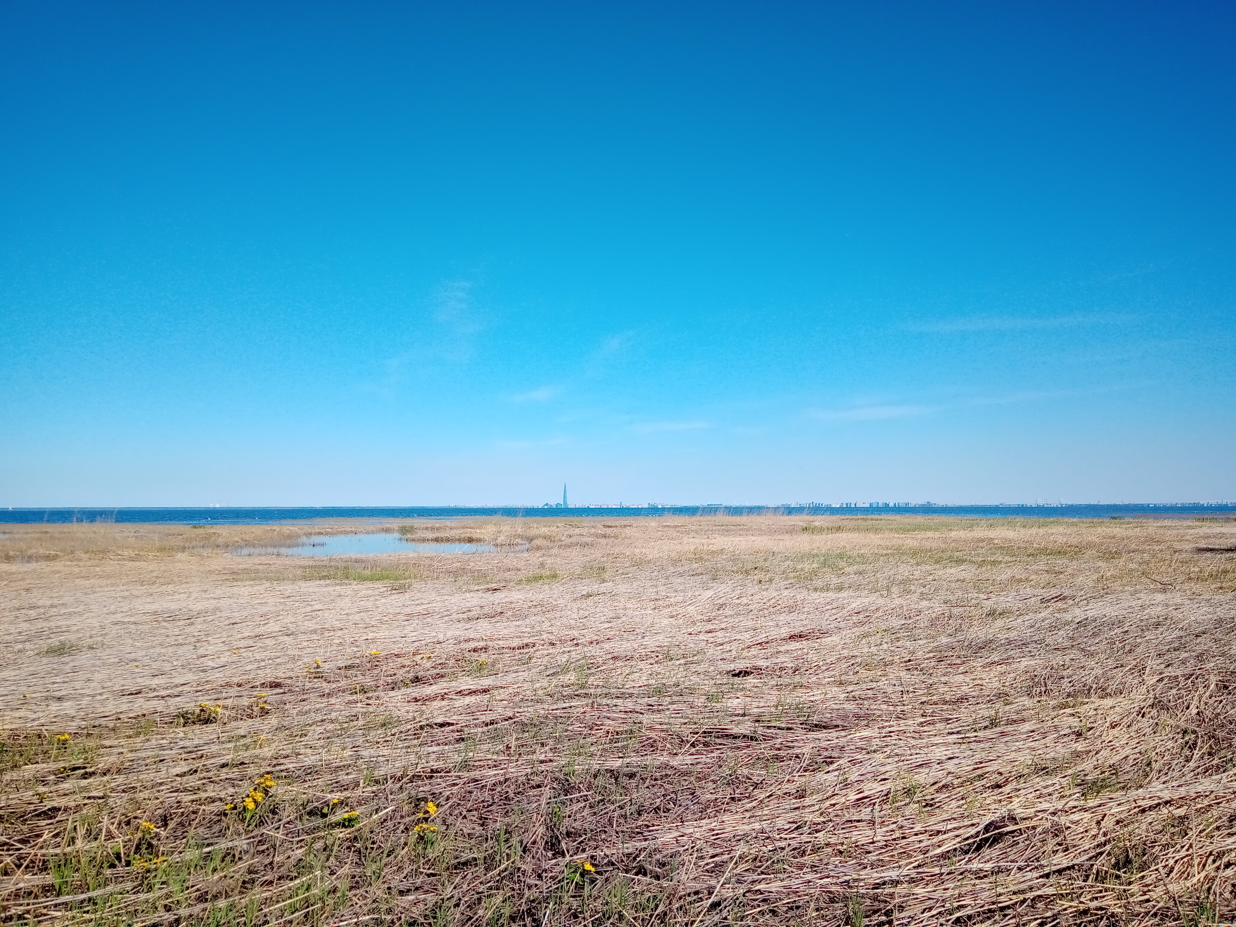 Neva Bay Znamenka shore